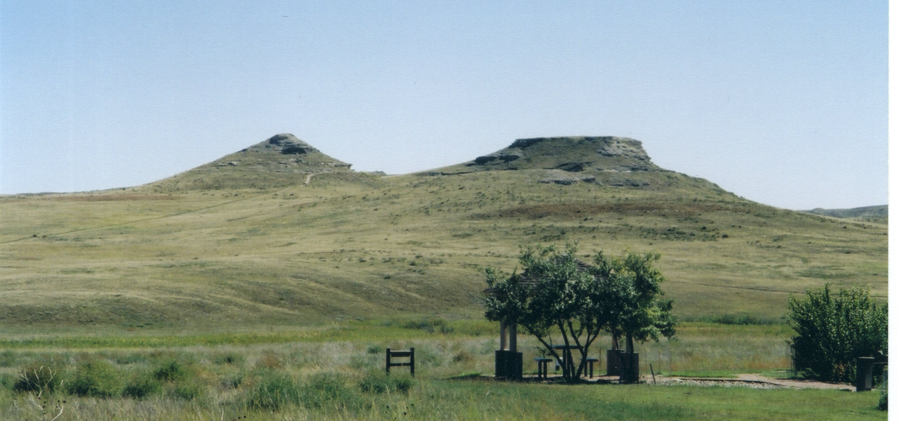 University and Carnegie Hill fossil sites. Agate Fossil Beds National Monument. Photo taken by me.